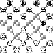 Opening "Sidlina — Semenova" (Игра Сидлина — Семёнова (атака шашки g5)) in russian checkers